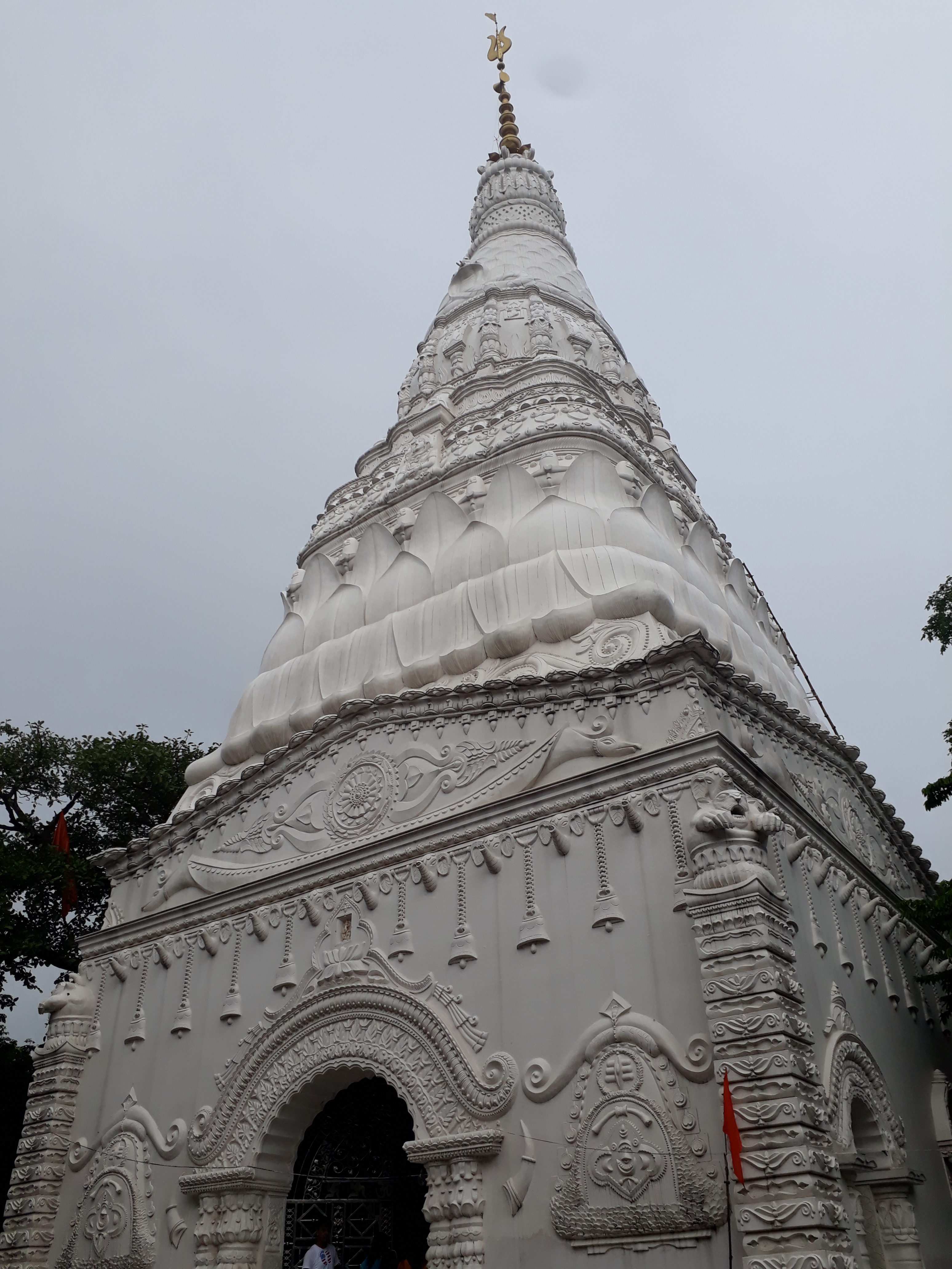 Mama Bhagne Hills and Temple in Dubrajpur town, Birbhum, West Bengal